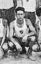 Kin'ichi Ozawa, Member of Keio Basketball Team, attended a training camp in Inuyama Town, Niwa District, Aichi Prefecture on July, 1927.